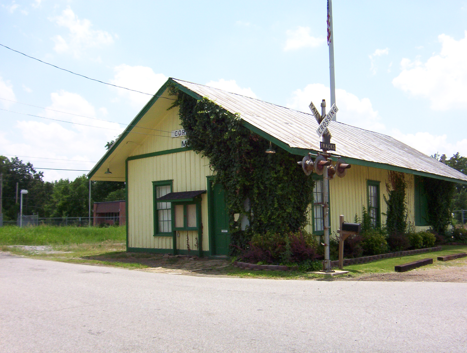 Former Cordova train station on Macon Road at A Street in Cordova, Tennessee. I made the photo myself, feel free to use it.